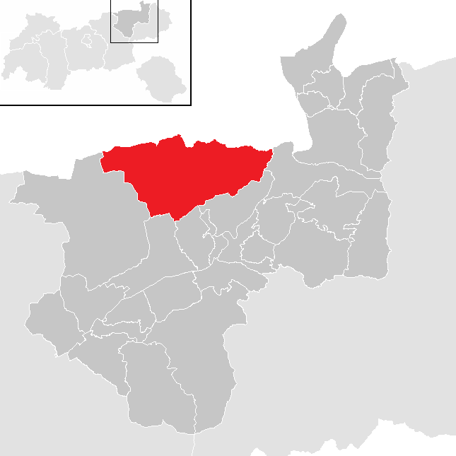 District Kufstein